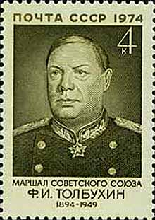 USSR stamp, Marshal Tolbukhin (1894-1949). 1974.